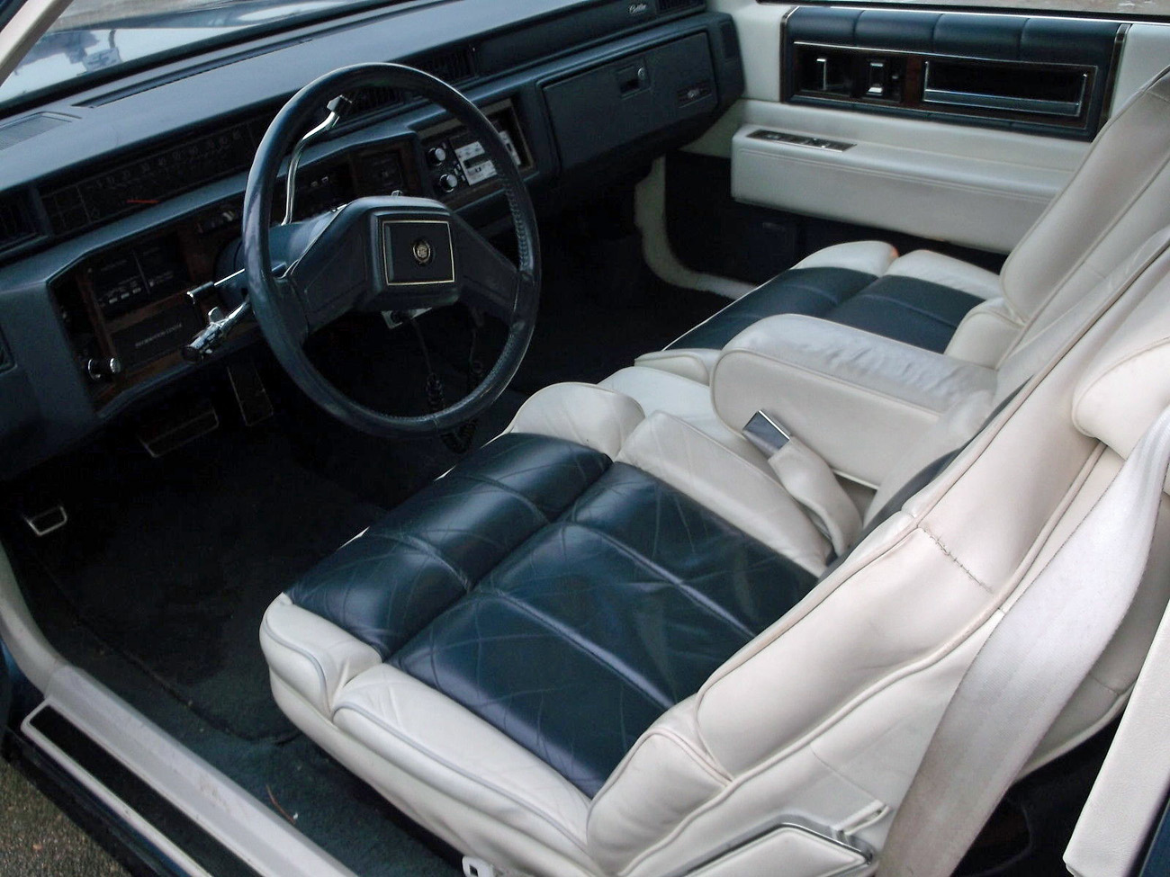 Cadillac put together a new special edition featuring a factory installed faux convertible top, gold plated emblems, color keyed wheel center caps and two-toned leather seats and door panels. It was available in White, Carmine red, light Sapphire blue and Sapphire blue firemist.